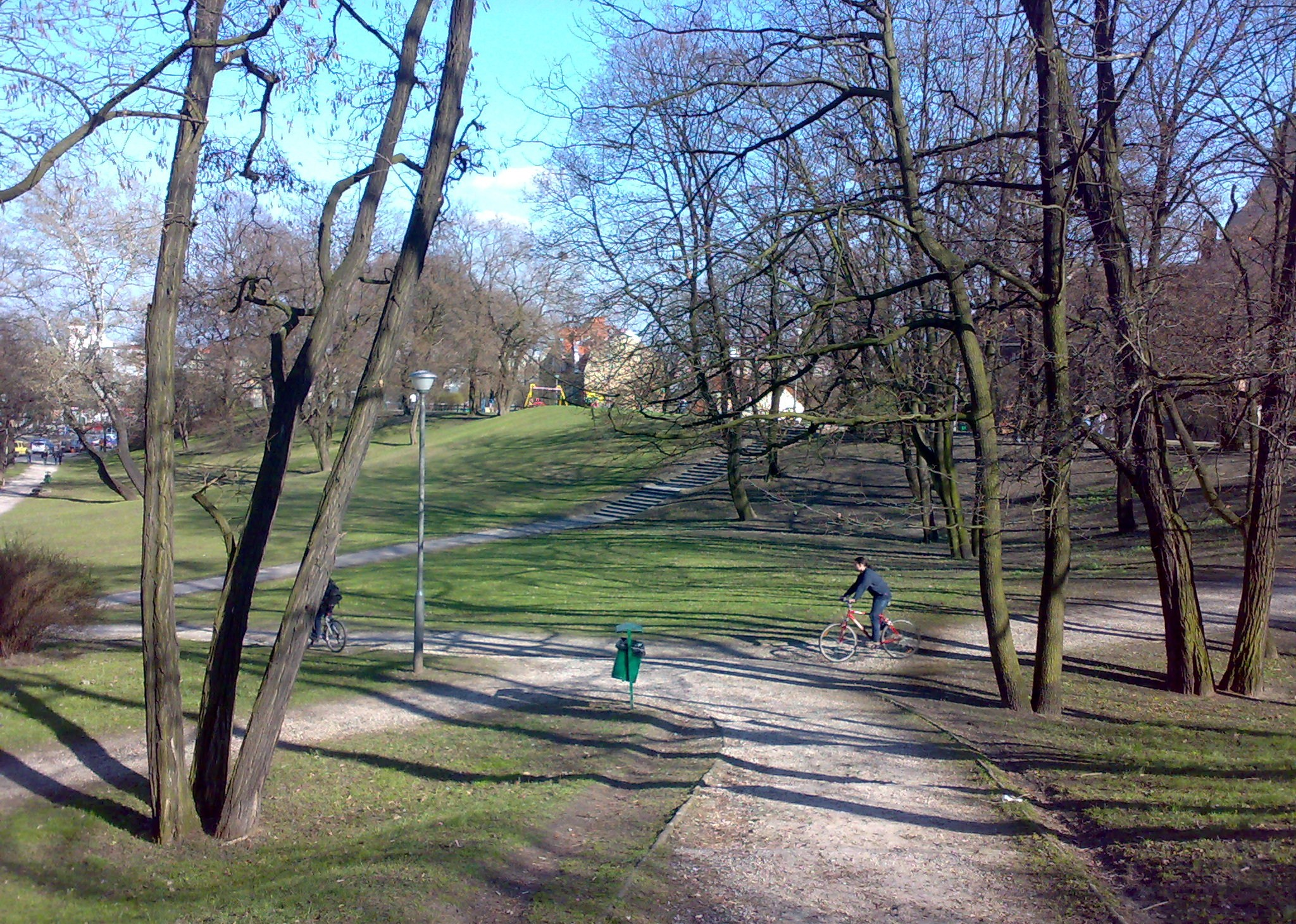 Drweskich Park in Poznan.